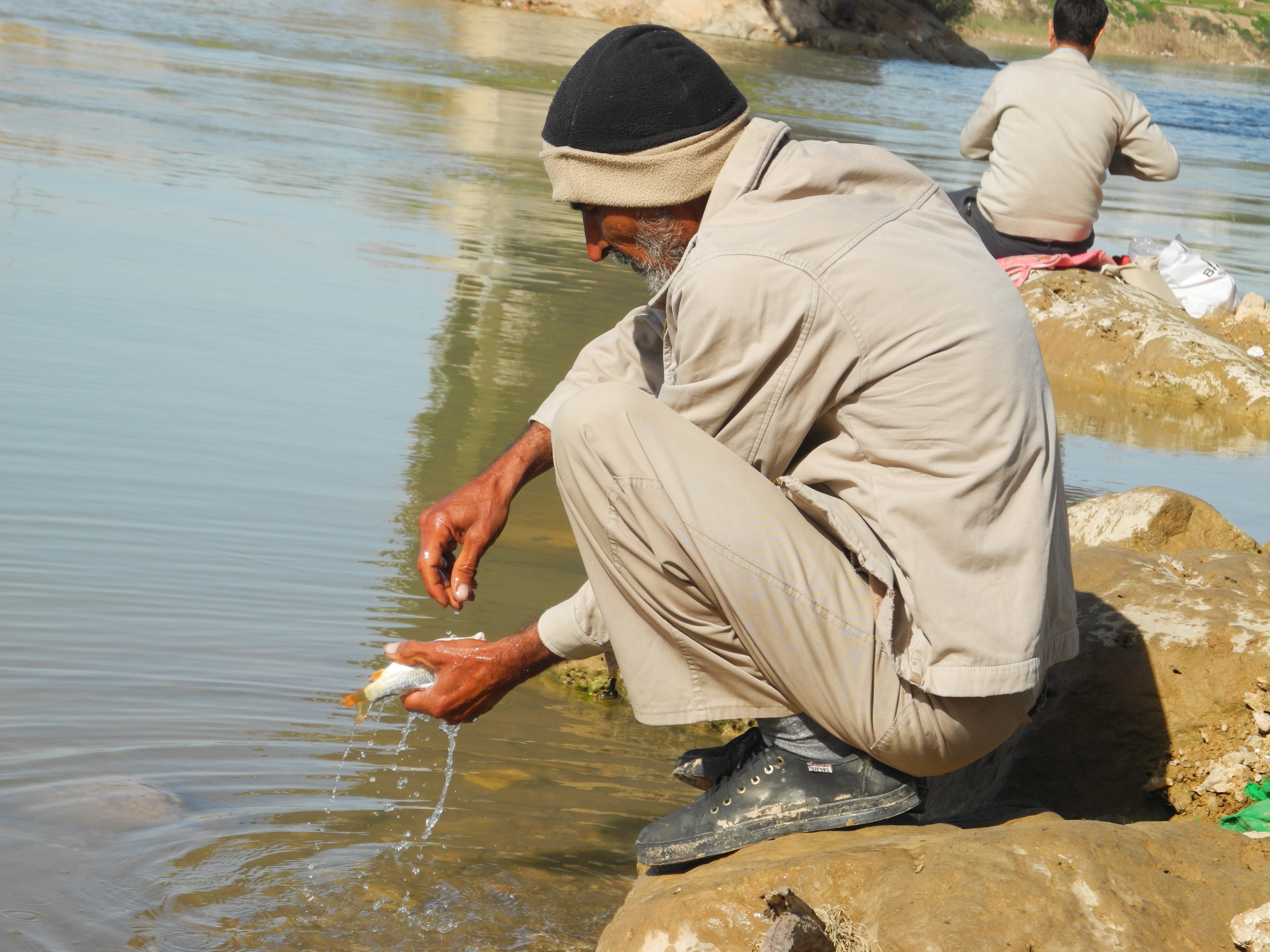 Fishing in Karun River